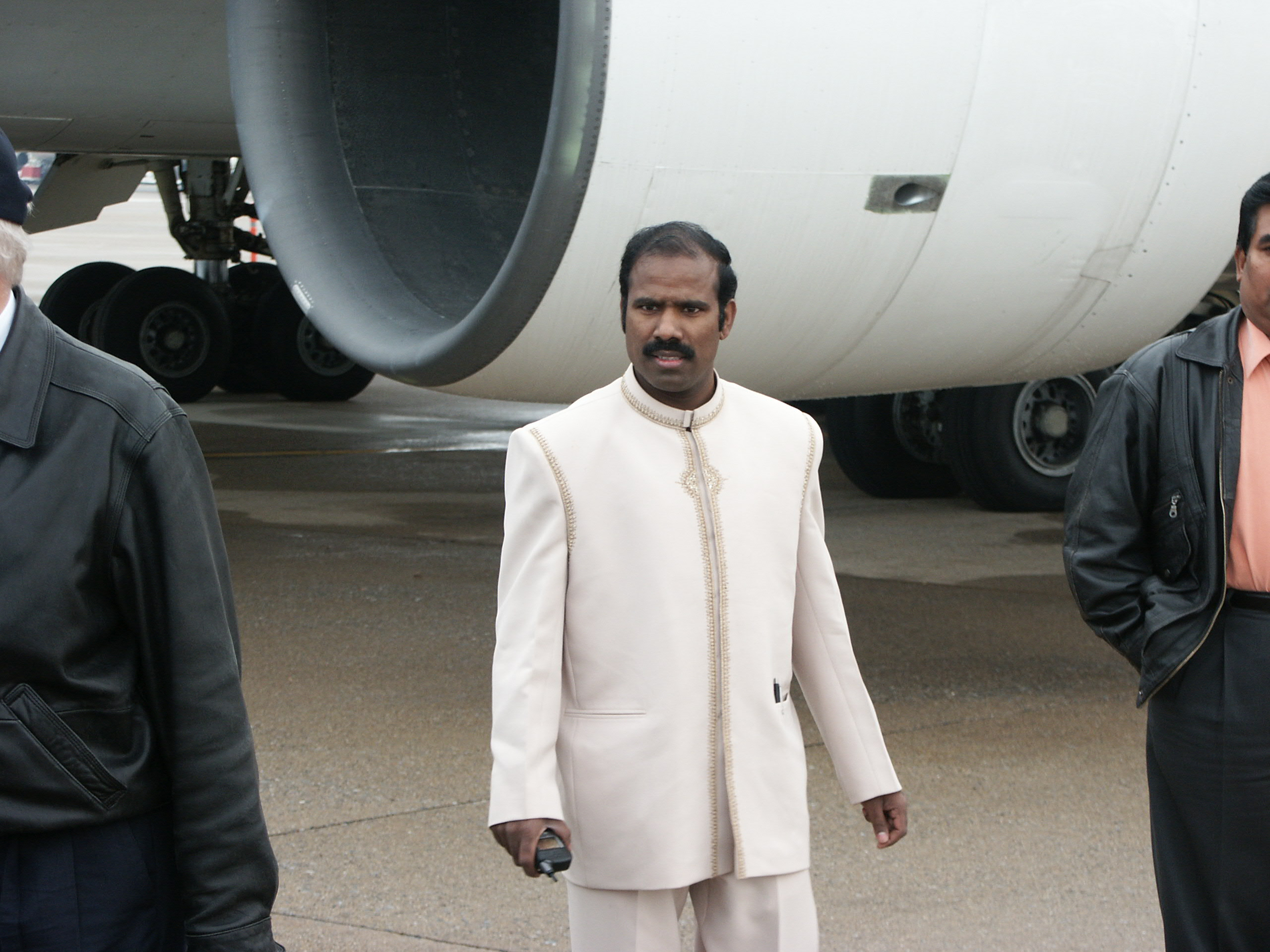 KA Paul with neputane